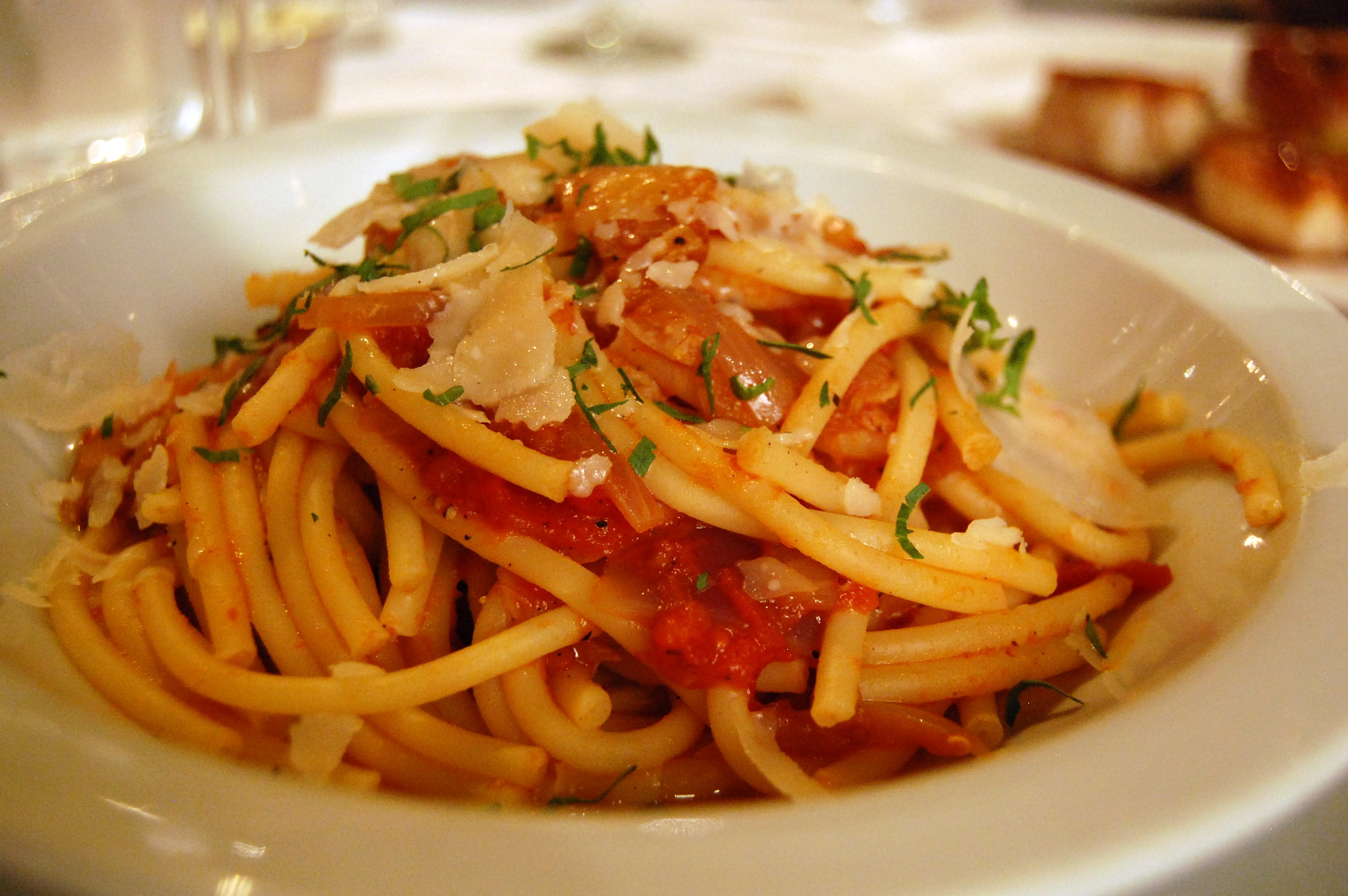 Bucatini with variant of amatriciana sauce using parsley